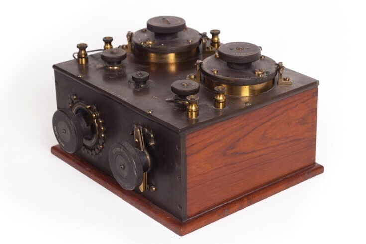 A Marconi crystal radio receiver used in wireless telegraphy stations in the first decade of the 20th century.